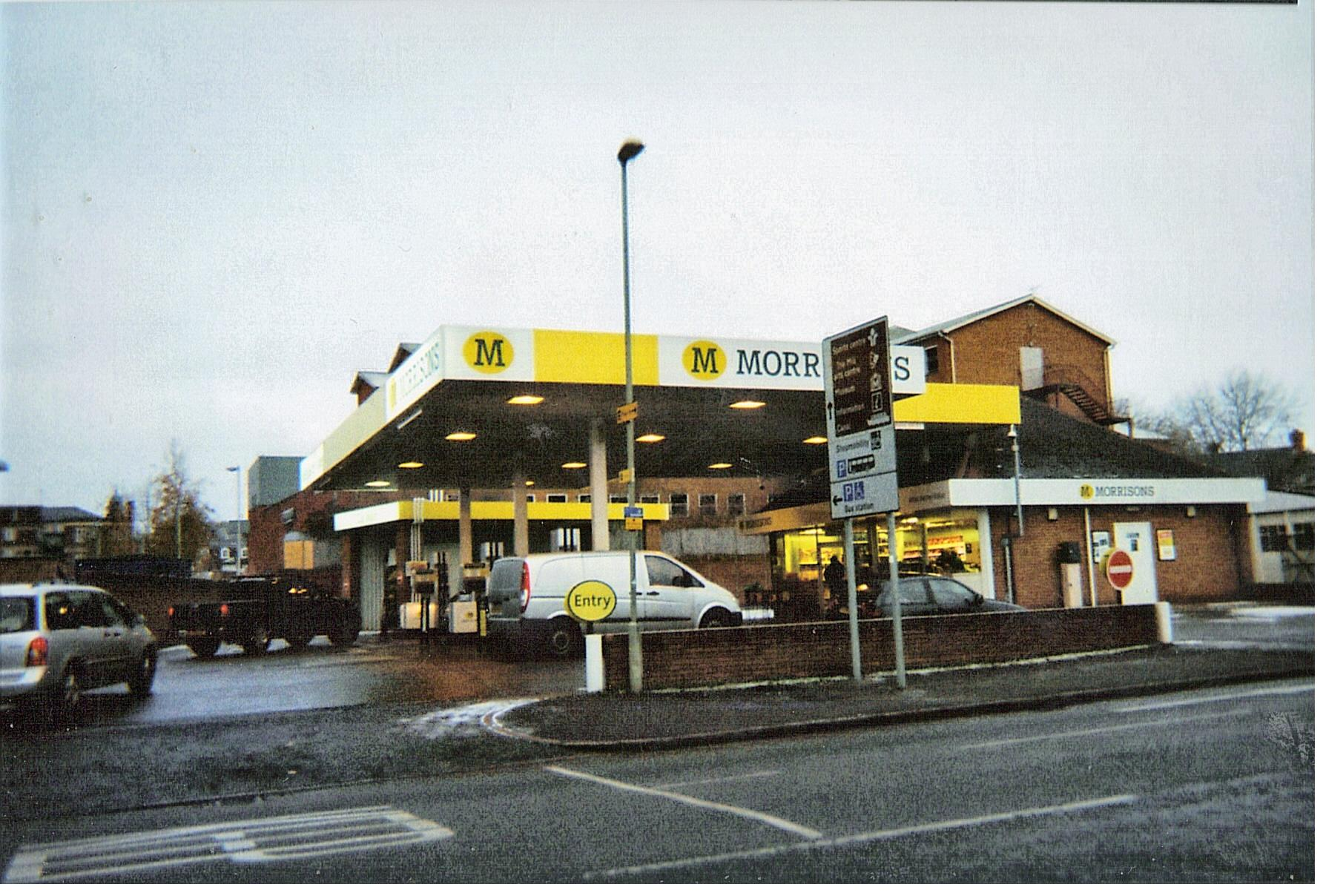 Morrison's garage, Banbury, Nov 29 2010.